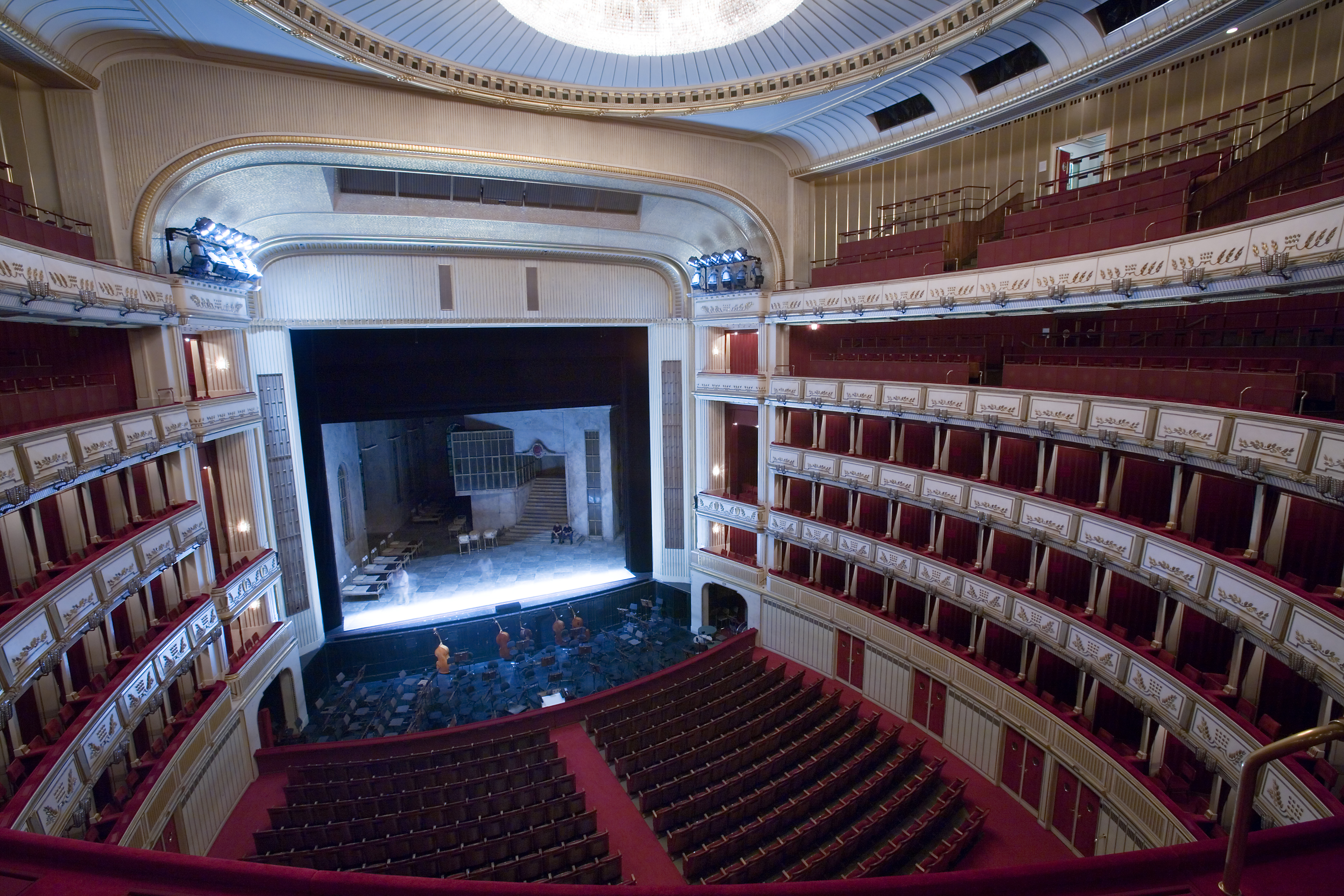 Vienna Opera main auditorium, Vienna, Austria